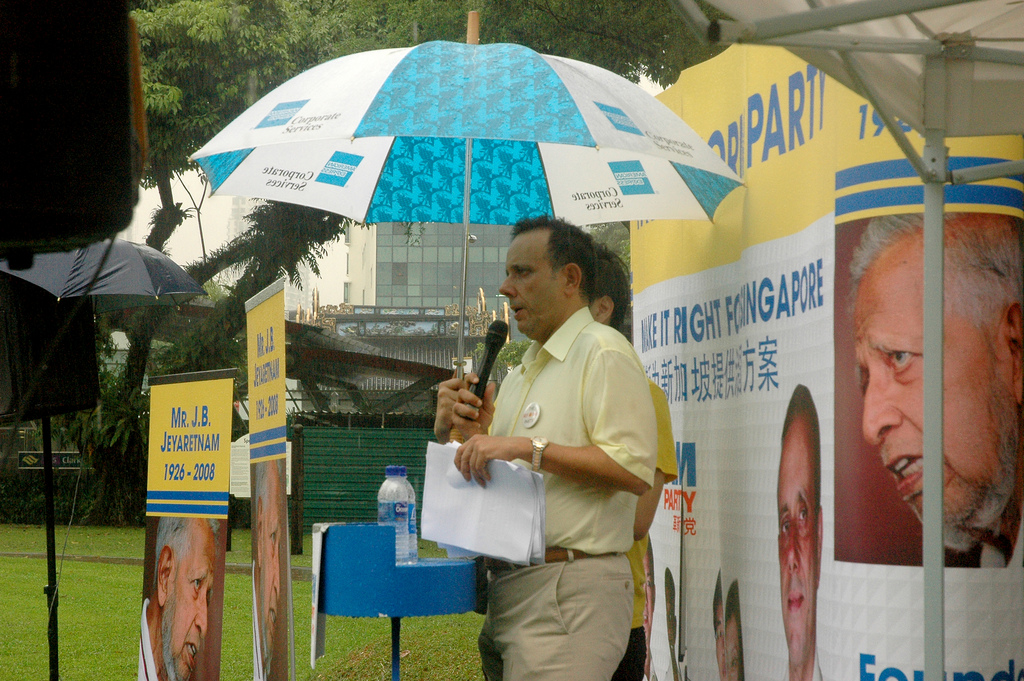 Kenneth Jeyaretnam, the Secretary-General of the Reform Party, speaking at a rally at Speakers' Corner, Singapore.